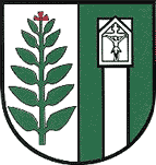 Coat of Arms of Ecklingerode